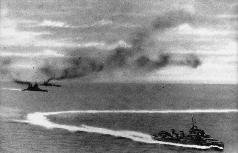 A heavily retouched Japanese photograph of HMS PRINCE OF WALES (upper) and REPULSE (lower) after being hit by Japanese torpedoes on 10 December 1941, off Malaya. A British destroyer can also be seen in the foreground. The sinkings were an appalling blow to British prestige.